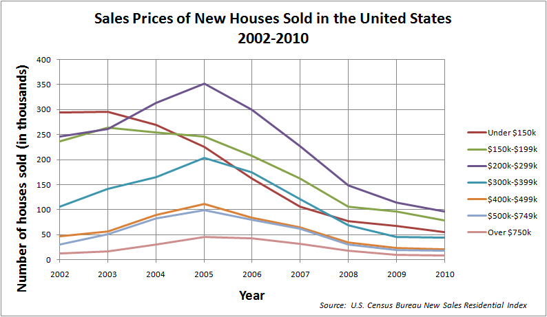 Sales Prices of new homes sold in the US. Data from Excel sheet